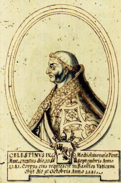 Sketch of Pope Celestine IV by 17th century artist